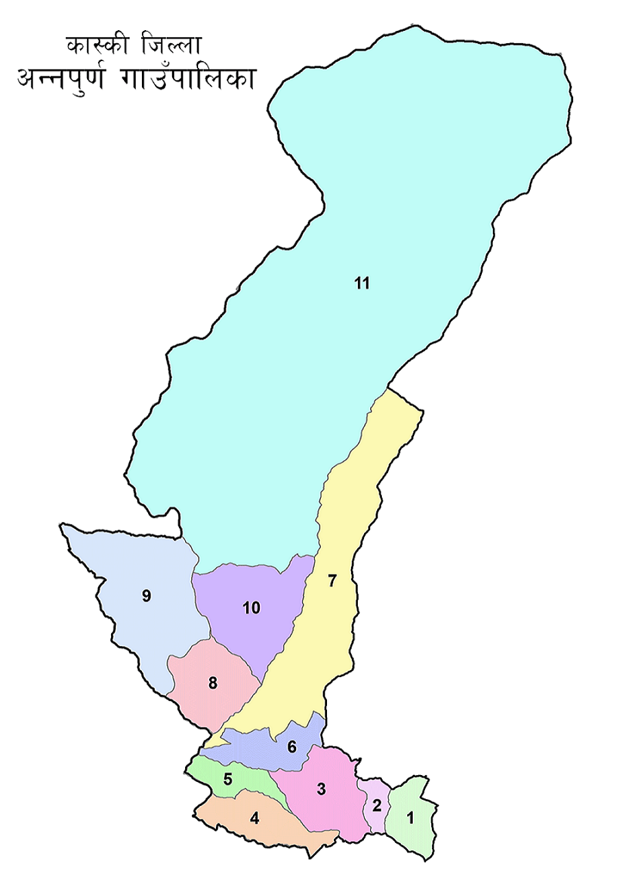 Annapurna